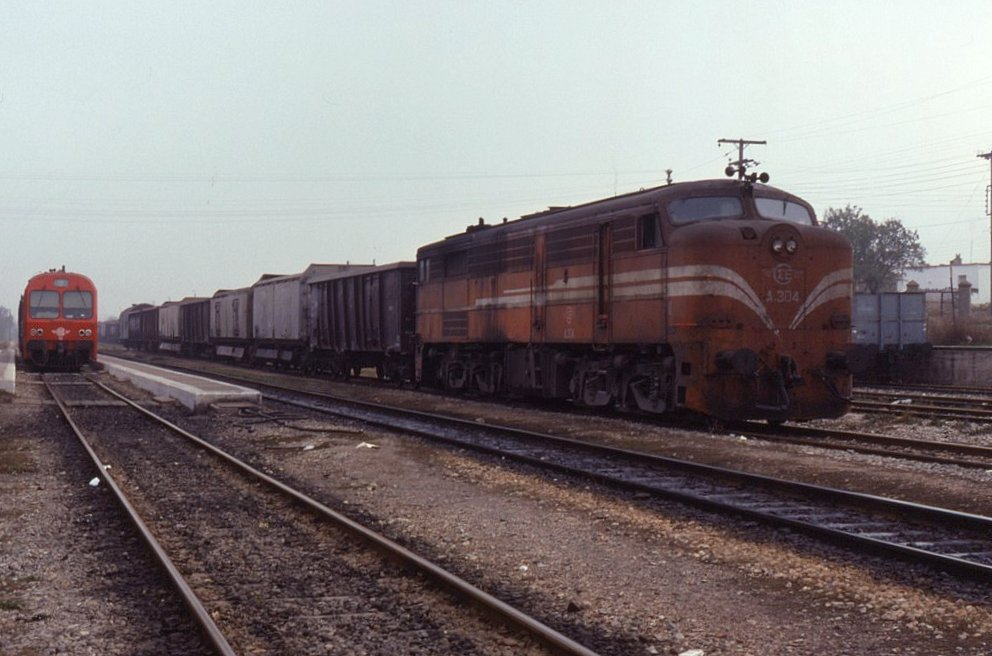 Classic designed ALCO built loco from 1962. 10 of these were built and regularly worked passenger trains until the late 1980s/early 1990s as well as freight. Seen here at Amyntaio on 4 November 1992, A.304 is seen on a freight.